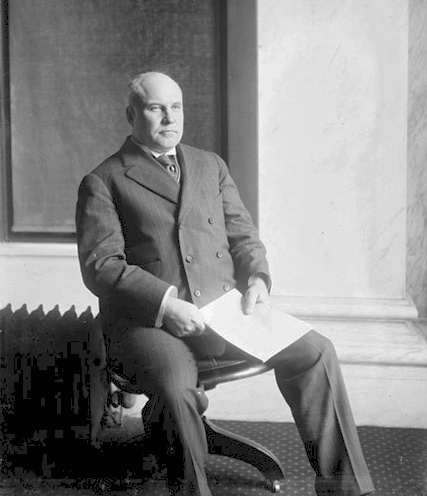 Newspaper photo of Commissioner Franklin K. Lane